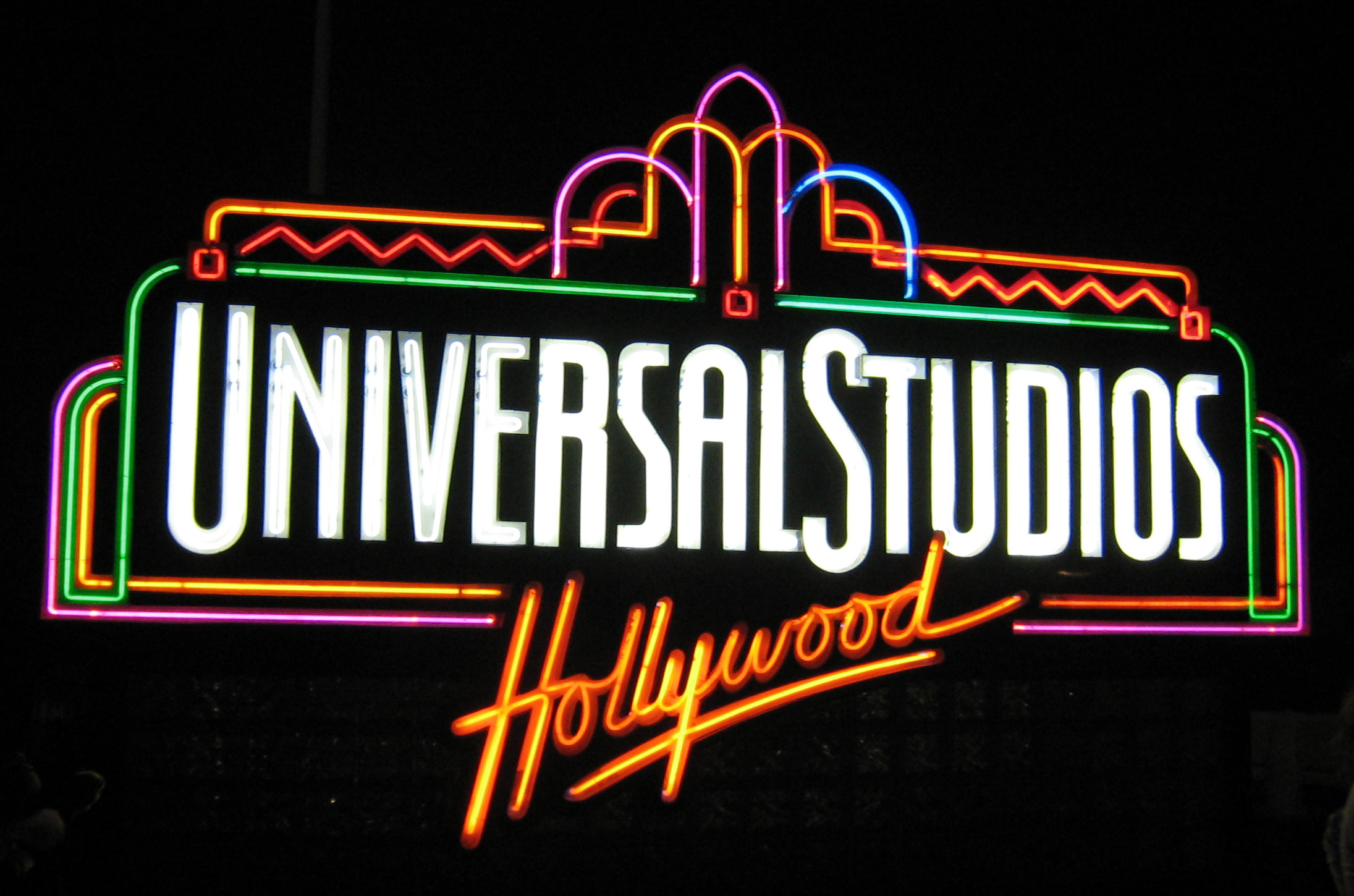 Night time image of the Universal Studios Hollywood sign at the entrance (fountain).